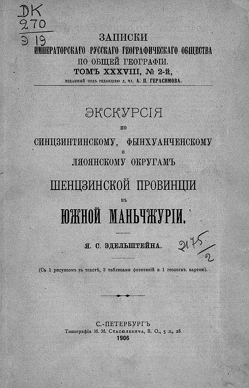 Cover of the work of Ya. S. Edelstein "Tour of ... Southern Manchuria." Notes of the IRGO on General Geography, Volume XXXVIII, No. 2. St. Petersburg, Stasyulevich Printing House, 1906.